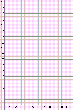 The Cartesian product structure on ℝ2 The image is made in raster graphics deliberately, such that its pixel structure matches the ℝ2 structure exactly: a unit interval equals to 20 px along both axes. It may not be rescaled. ┼ coordinate axes (x = 0) ∨ (y = 0) │ integer x (except 0) ─ integer y (except 0) ┼ (x − 12 ∈ Z) ∨ (y − 12 ∈ Z), except cases above ■ (10x ∈ Z) ∧ (10y ∈ Z), except cases above ─│ (10x ∈ Z) ∨ (10y ∈ Z), except cases above